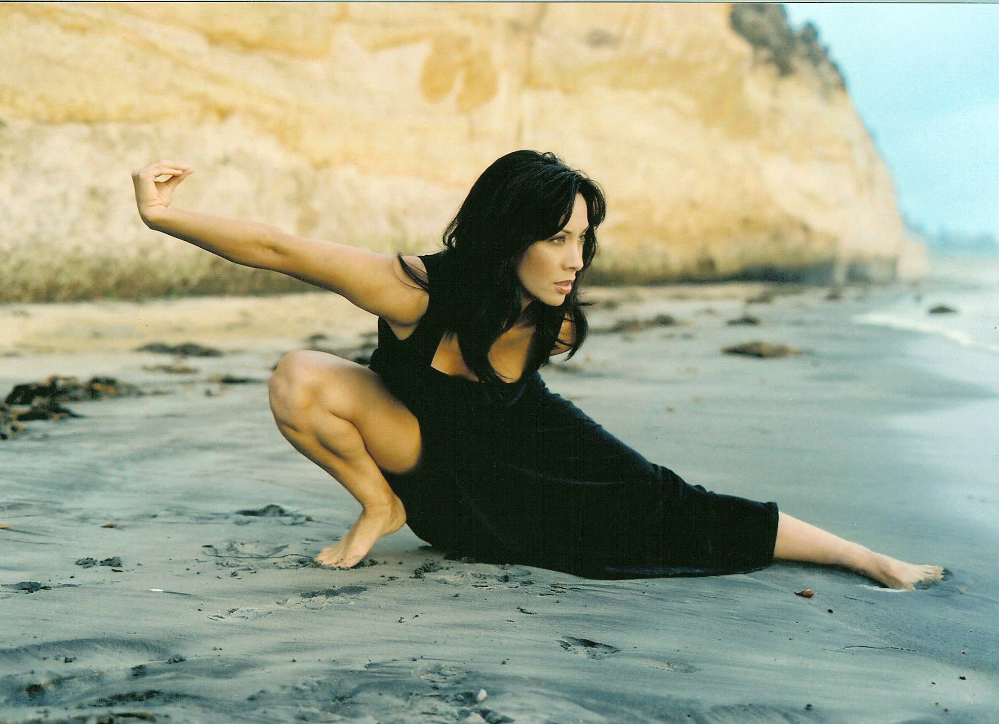 Diana Lee Inosanto (born May 29, 1973) is a Filipino American actress, stuntwoman, martial artist and film director.